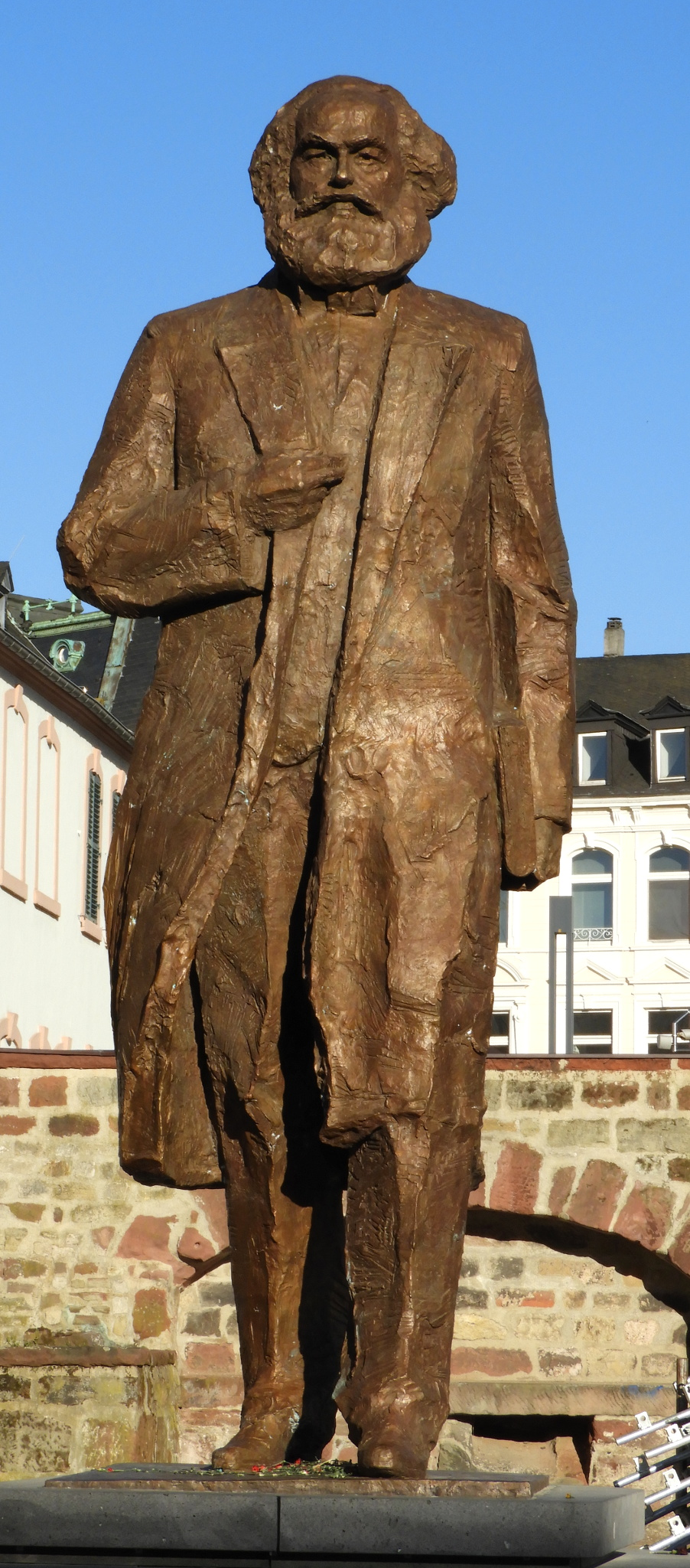 Statue representing Karl Marx, created by chinese sculptor Wu Weishan on the occasion of Marx' 200th birthday. Monument is located at Simeonstiftplatz, Trier, Germany.